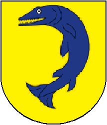 Coat of arms of Soubey, Canton of Jura, Switzerland